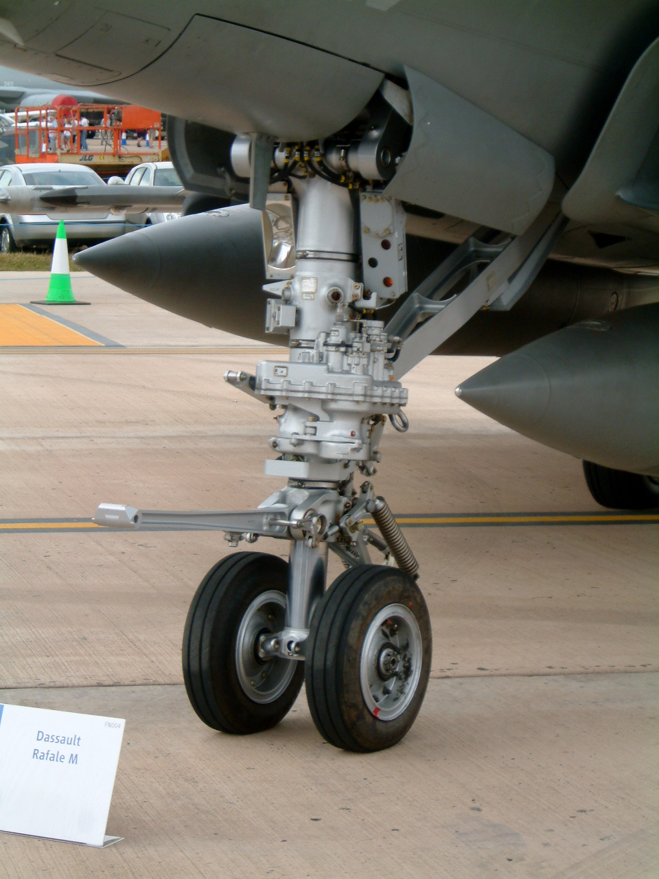 Nose gear of a Rafale fighter at Fairford RIAT last year.Nice leg